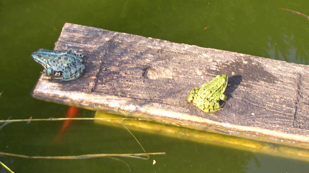 Two Edible Frogs (Pelophylax "esculentus"). The left specimen lacks yellow pigments, so it looks blue.